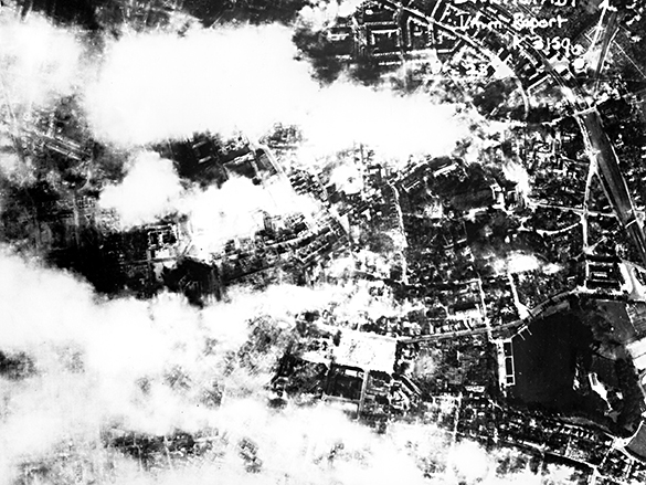 Aerial photograph of Darmstadt one day after the Brandnacht of 11th September 1944